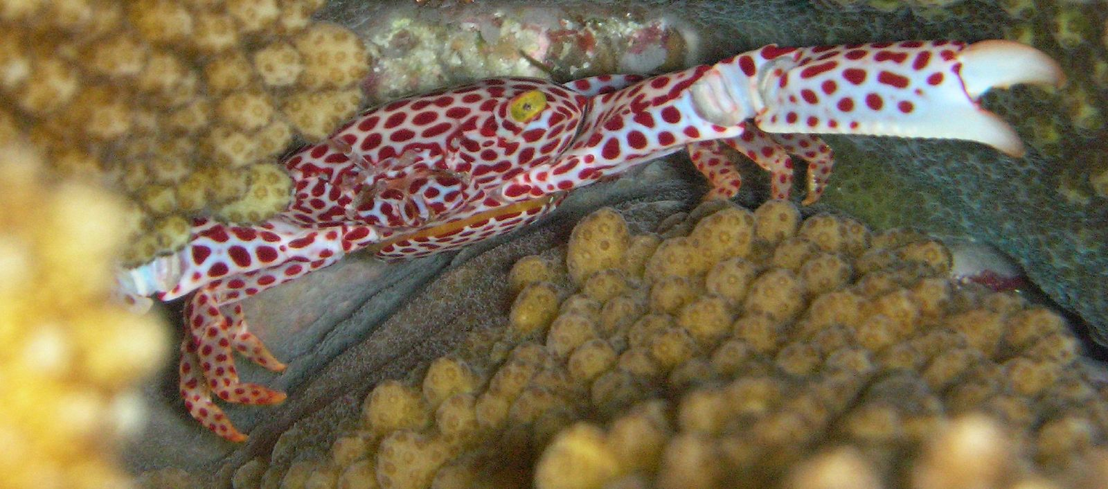 Red Spotted Guard Crab